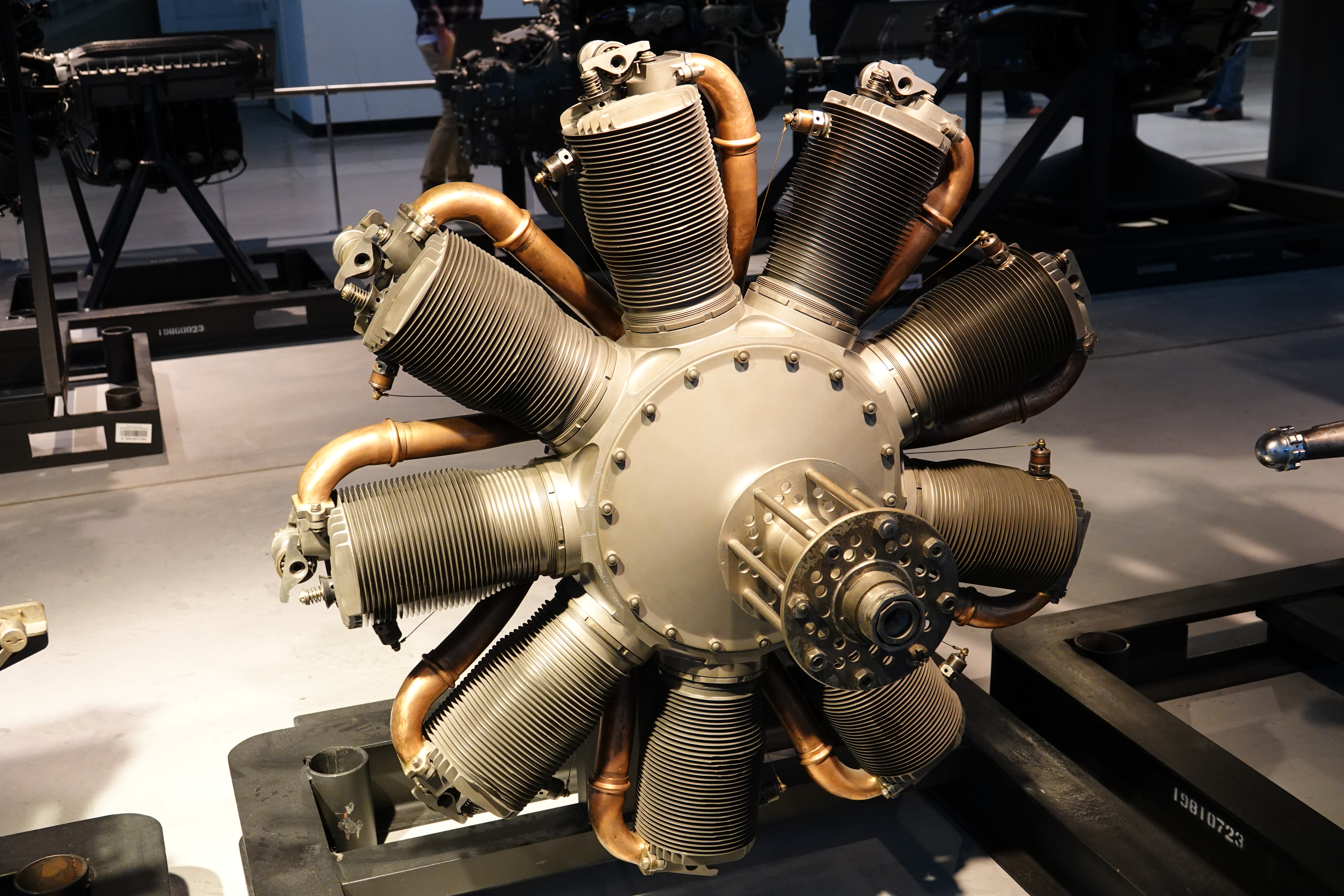 The Societe des Moteurs Gnome et Rhône built the Le Rhône Model I to power a variety of combat aircraft during World War 1, including the Nieuport 23, Hanriot HD.1 , SPAD A.2, Nieuport Triplane, and Sopwith Triplane. The Model J is most famous for its connection to the Nieuport 17, the French fighter ﬂown by aces Rene Fonck, William Bishop, Charles Nungesser, Albert Ball, and Georges Guynemer. The engine’s success prompted the Germans to try to salvage and duplicate Le Rhônes from downed French and British ﬁghters. Many salvaged Le Rhônes and their German-built copies saw service in such fighters as the Fokker Dr.1 Triplane. Picture taken at the National Air and Space Museum's Steven F. Udvar-Hazy Center in Chantilly, Virginia, USA. Type: rotary, 9 cylinders, radial, air cooled Power rating: 82 kW (110 hp) at 1,300 rpm Displacement: 15.1 L (920 cu in) Weight: 147 kg (323 lb) Manufacturer: Société des Moteurs Gnome et Rhone Paris, France